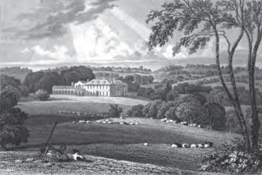 Engraving of Rolls Park, Essex, drawing by John Preston Neale, dates 1 September 1826, engraving by J. C. Varrall, in Views of the seats of noblemen and gentlemen in England, Wales, Scotland and Ireland, Second Series, Volume III, published 1826